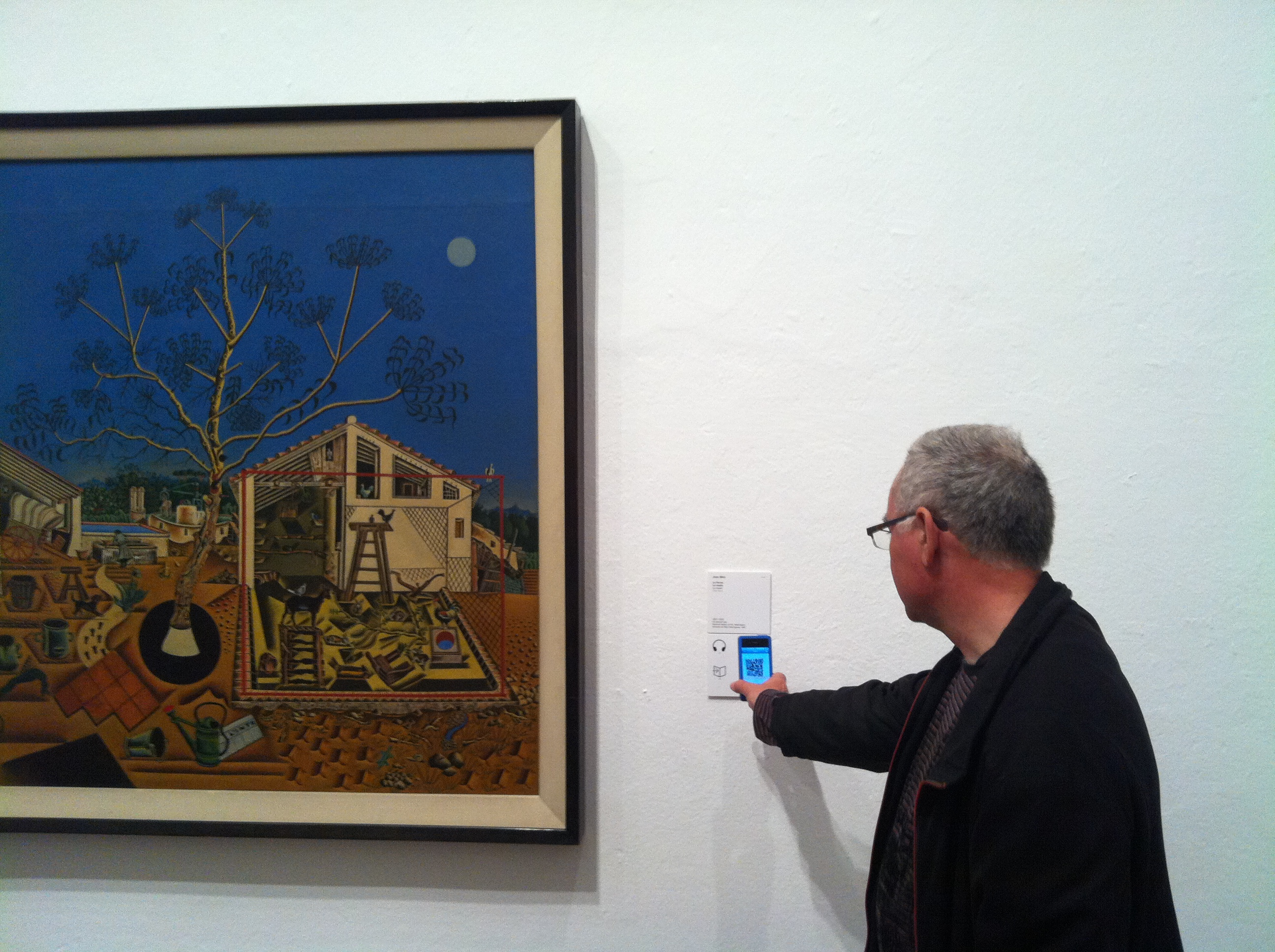 People scanning QRpedia codes at Joan Miró exhibit at Fundació Joan Miról